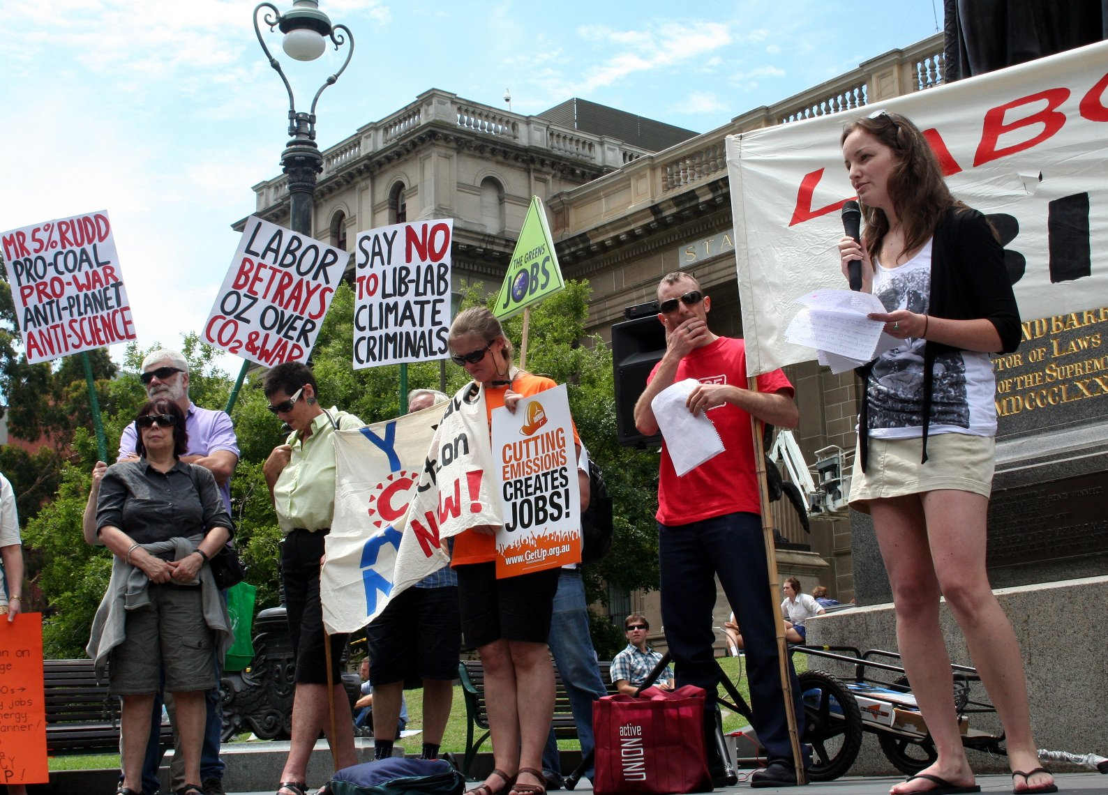 Climate Emergency Rally in Melbourne organised by the Australian Youth Climate Coalition (AYCC). Speaker Wendy Miller represented Australian Youth in Copenhagen at the COP15 climate negotiations.